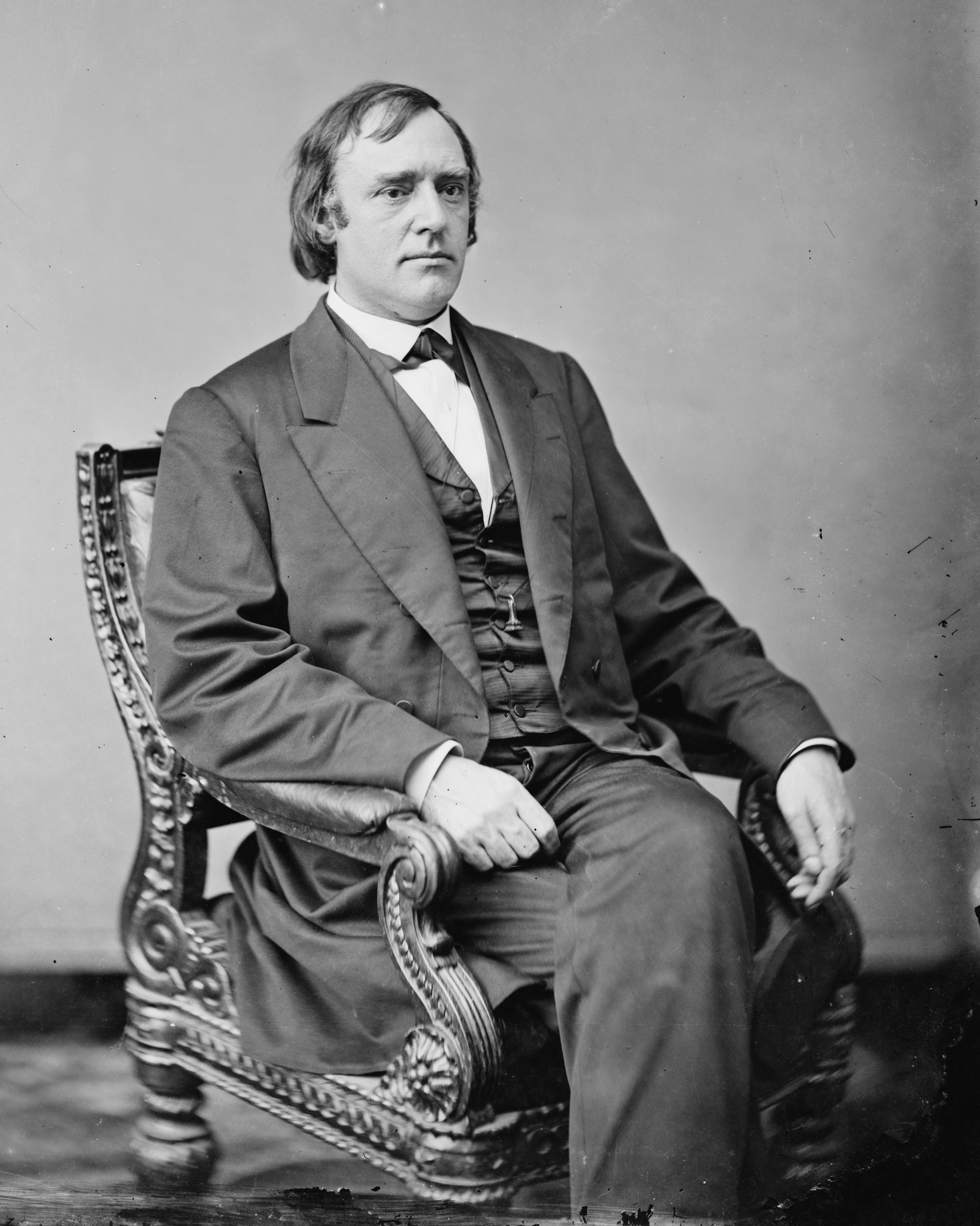 John Philip Newman. Library of Congress description: "Rev. Dr. J. P. Newman".